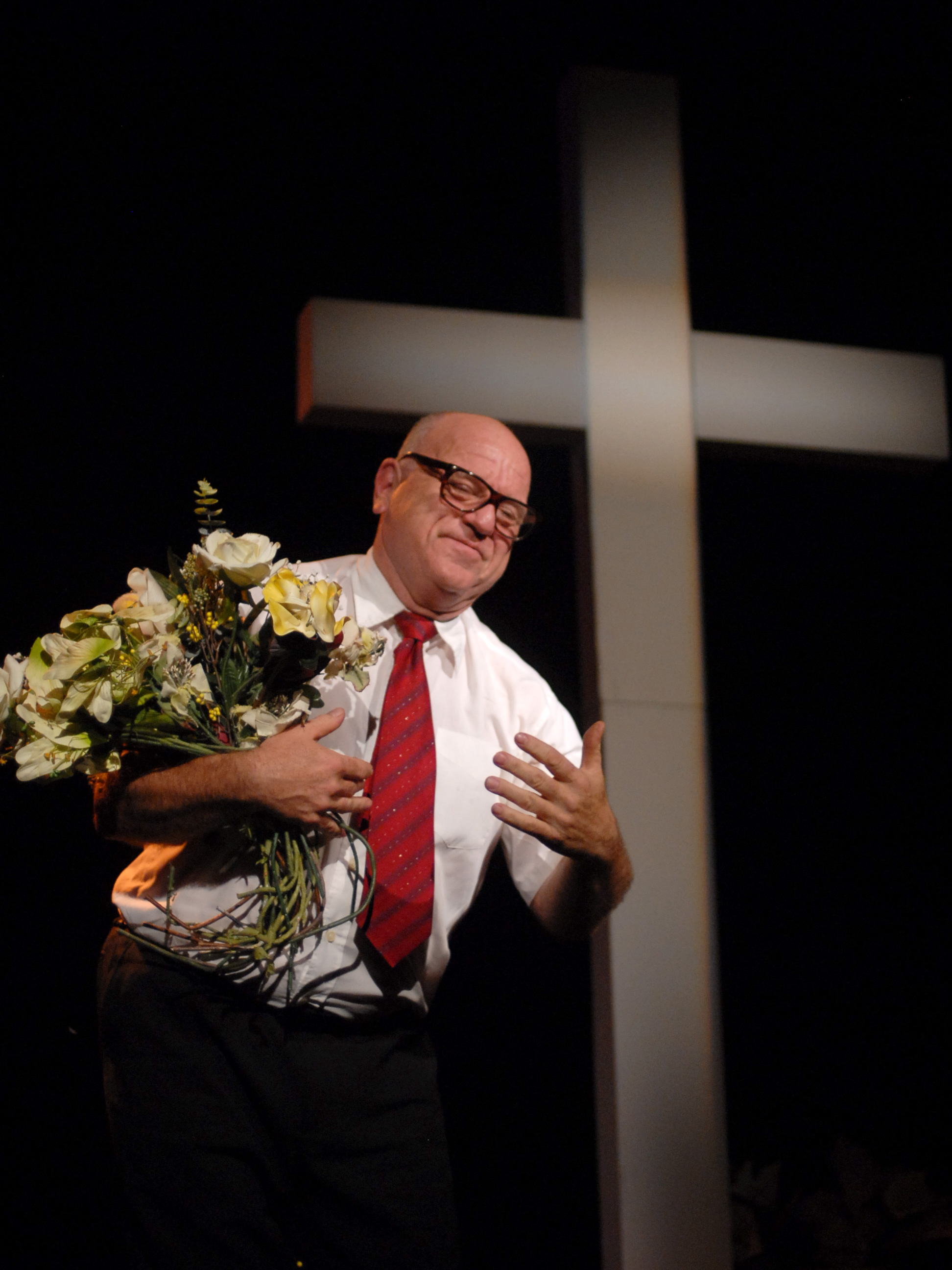 Leo Bassi on 17 May 2008 at Orpheum Vienna (Austria), performing "Revelación"